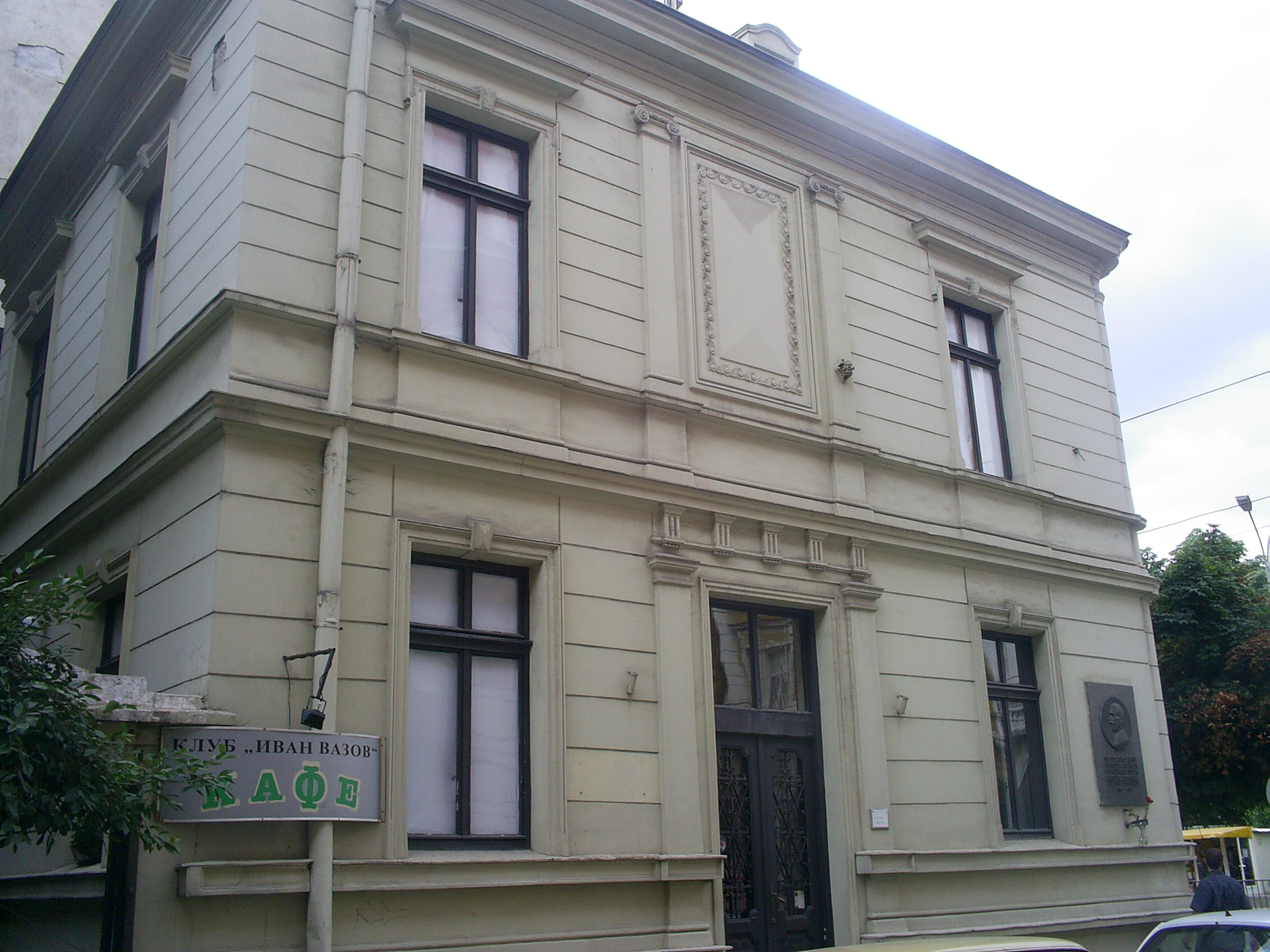 House-museum "Ivan Vazov", Sofia, Bulgaria